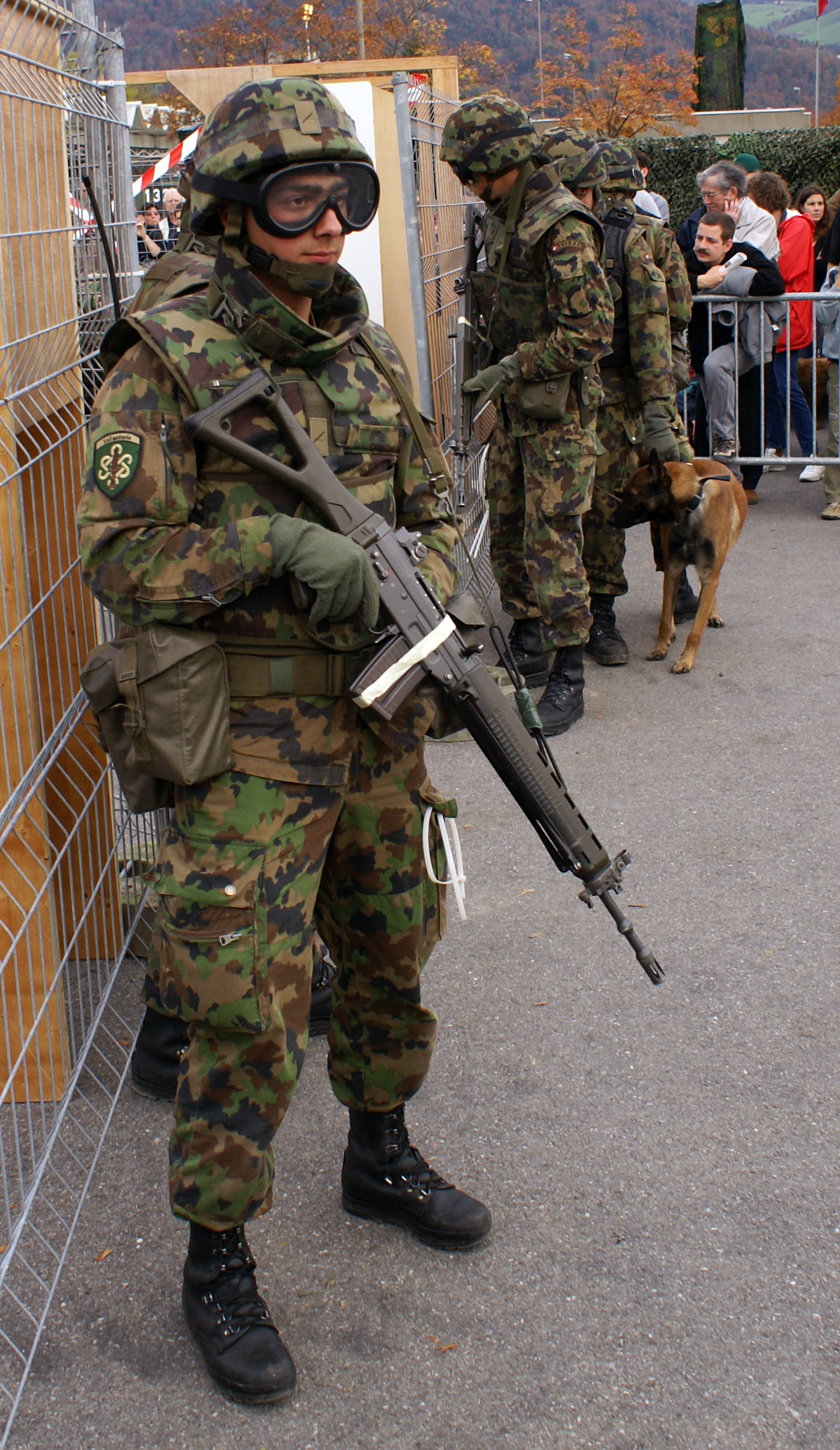 Swiss Army. Infantry squad. Building search demonstration. The white tape on the rifles is for the sealing of weapons pointed at people for training purposes.